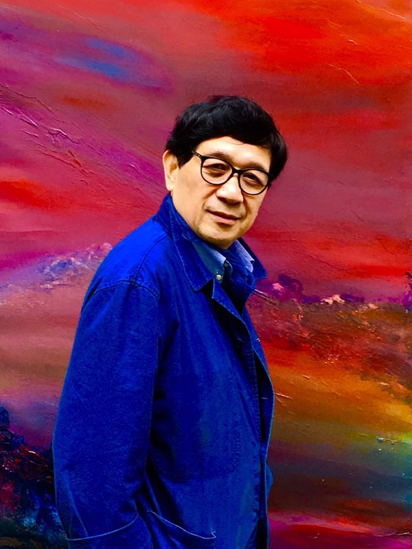 Christian Lu 's portrait